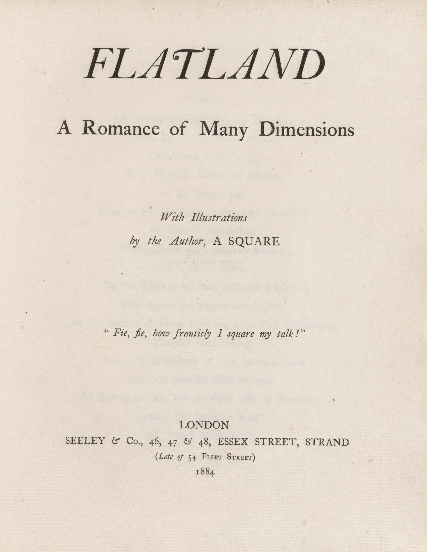 Title page of Flatland: a romance of many dimensions / with illustrations by the author, A Square. By Edwin Abbott Abbott (1838-1926). Published: London: Seeley & Co., 1884. *EC85 Ab264 884f Houghton Library, Harvard University